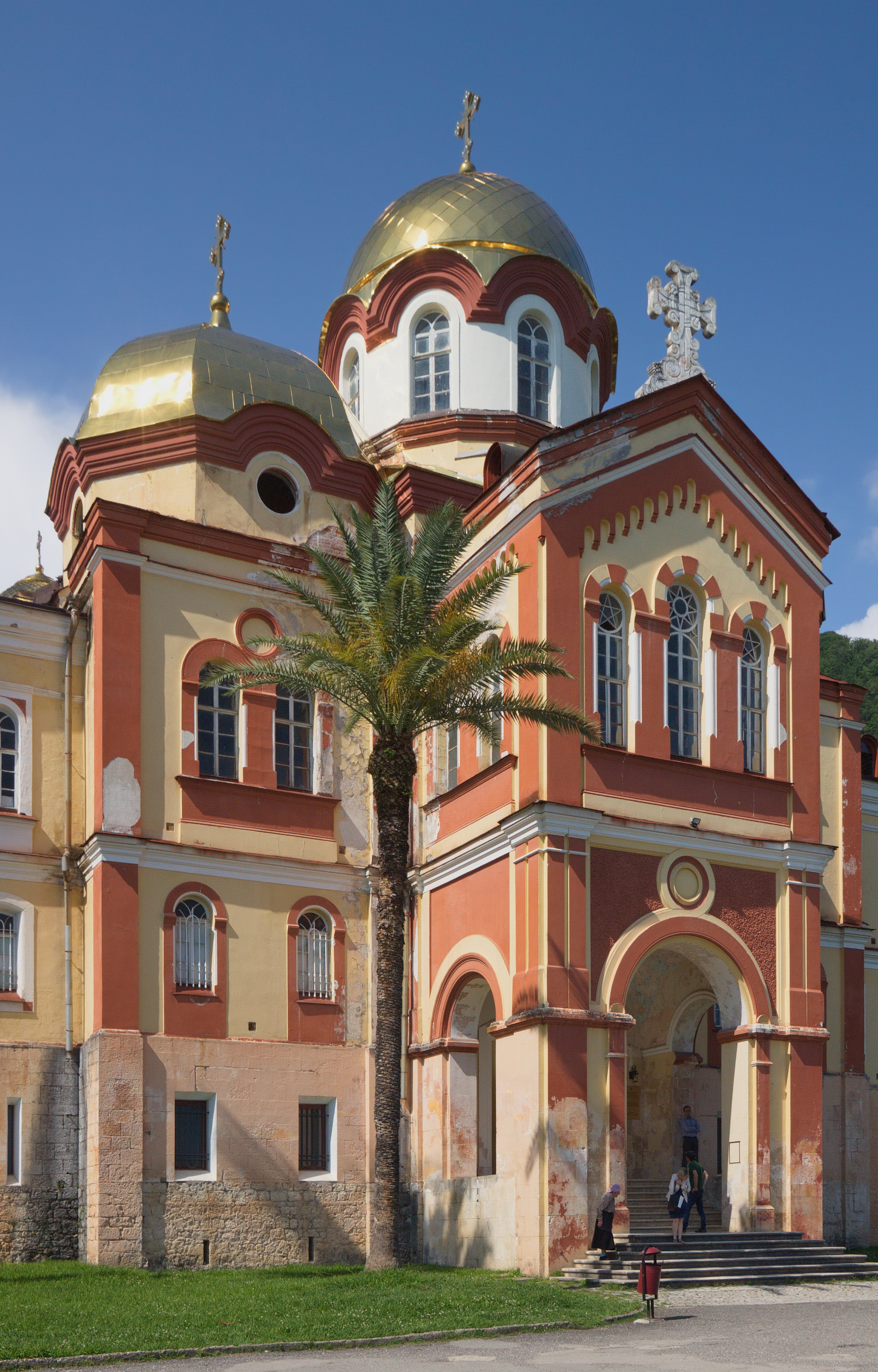 Monastery of St. Apostle Simon the Zealot. New Athos, Gudauta District, Abkhazia.